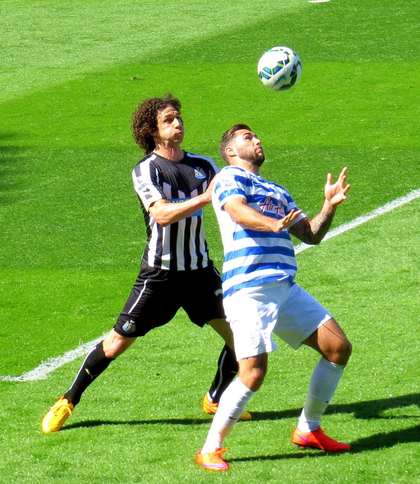 Fabricio Coloccini v QPR at Loftus Road May 2015